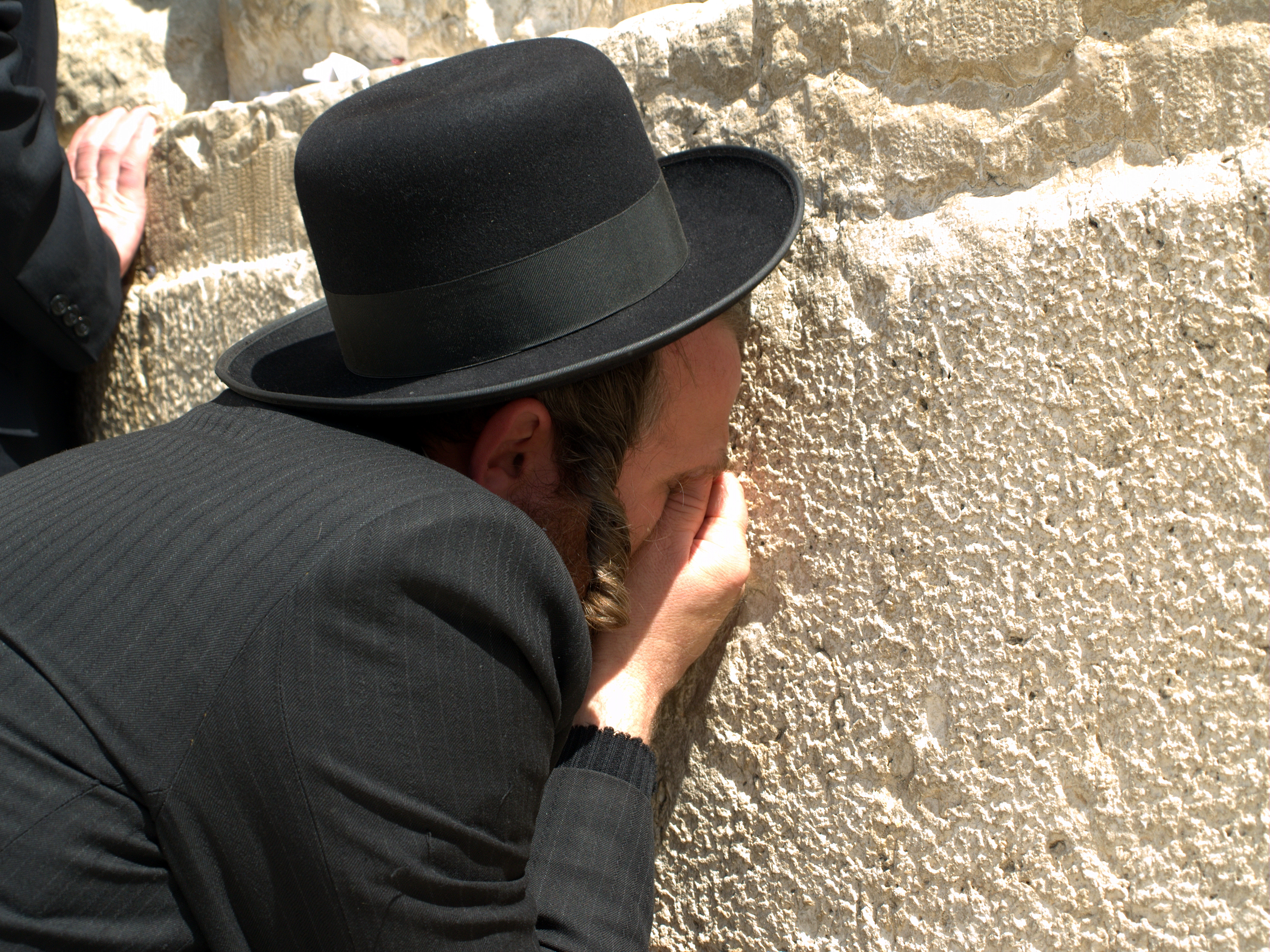 A man crying as he prays at the Western Wall.